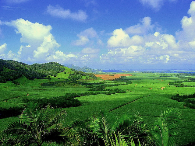 Sugarcane plantation in Mauritius. (Version with colour saturation reduced compared to original upload).